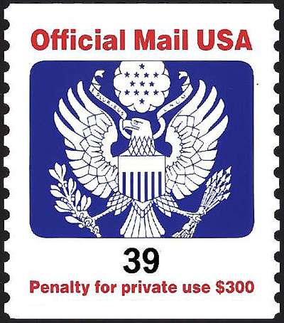 39 Cent "Penalty Mail Stamp" for use on US Government "Official Mail" in lieu of printed "Penalty" frank.